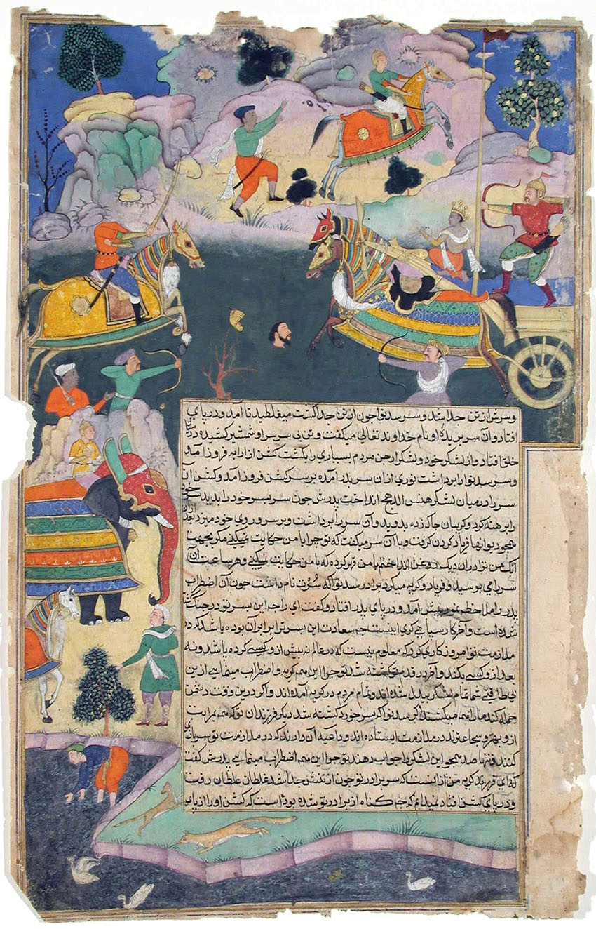 Sudhanva continues to fight after he has been beheaded by his own sword Series Title: Razmnama Display Artist: Qasim Creation Date: 1616 Display Dimensions: 15 1/4 in. x 9 21/32 in. (38.7 cm x 24.5 cm) Credit Line: Edwin Binney 3rd Collection Accession Number: 1990.337 Collection: The San Diego Museum of Art